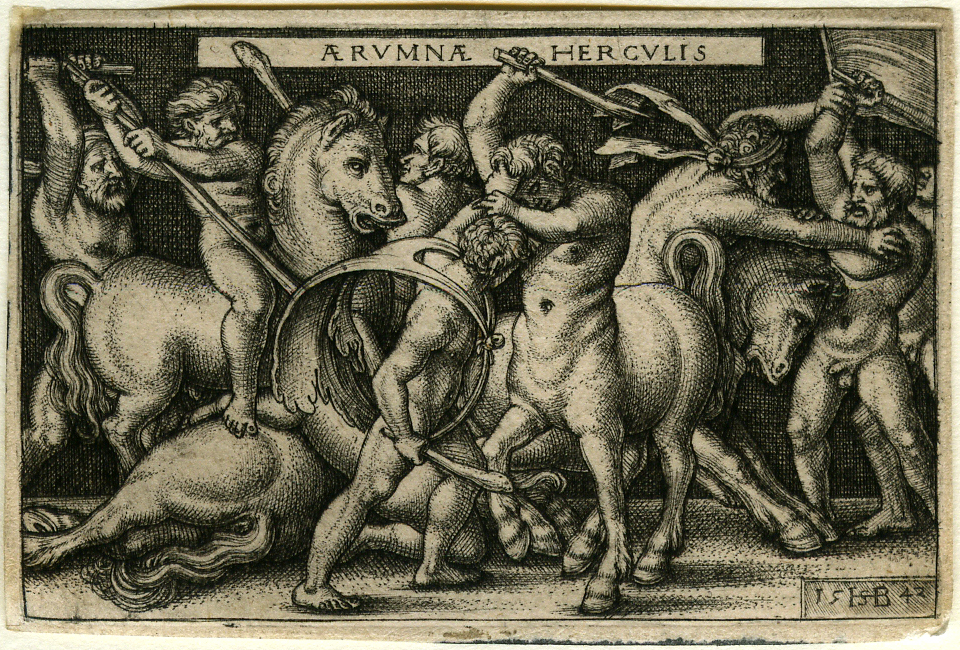 Beham, (Hans) Sebald (1500-1550): Engraving. Hercules fighting against the Centaurs, 1542 (B.96, P.98 v/v) from The Labours of Hercules (1542-1548). Final state.